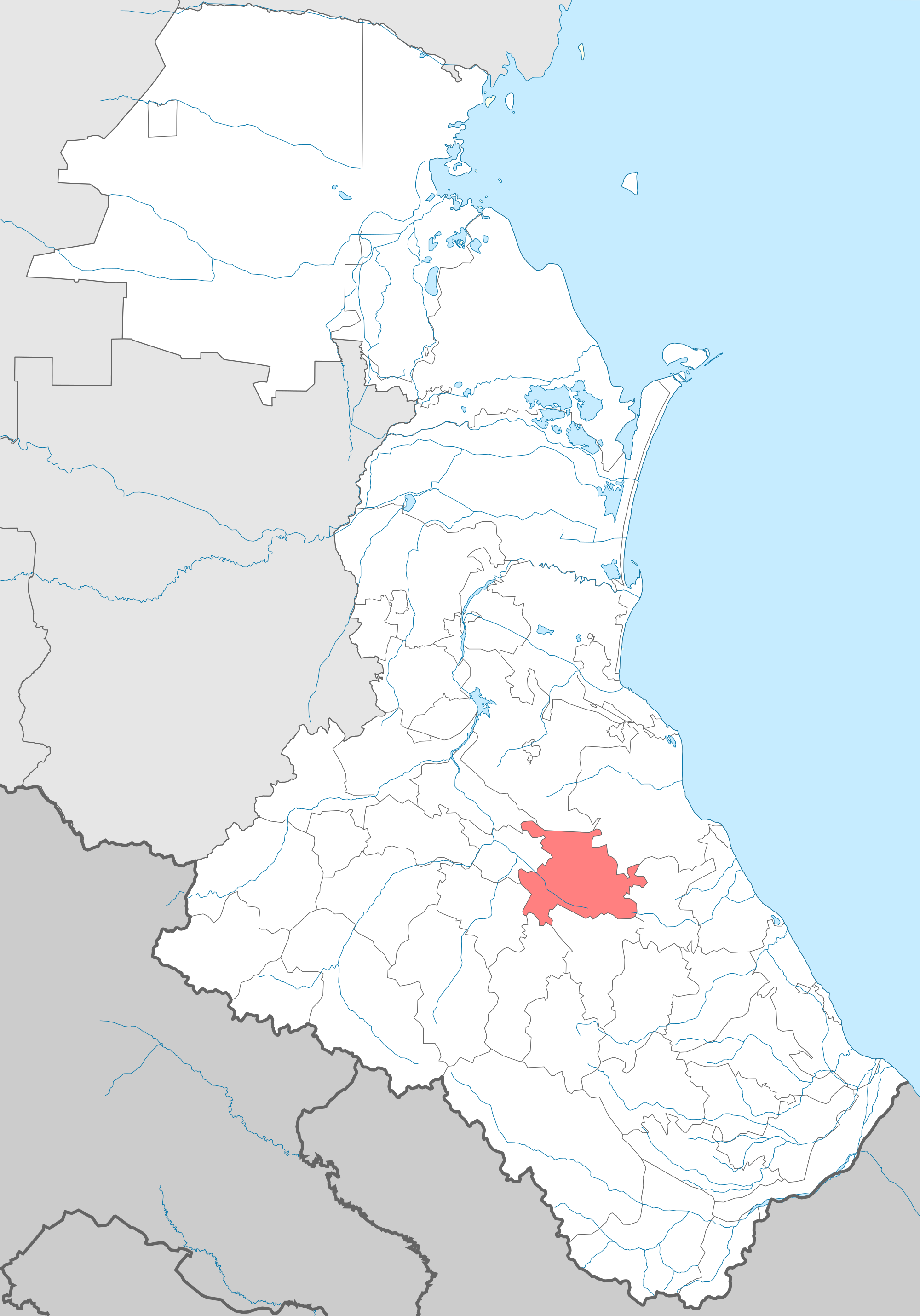 Levashinsky district. Locator Map of Dagestan (Russia)